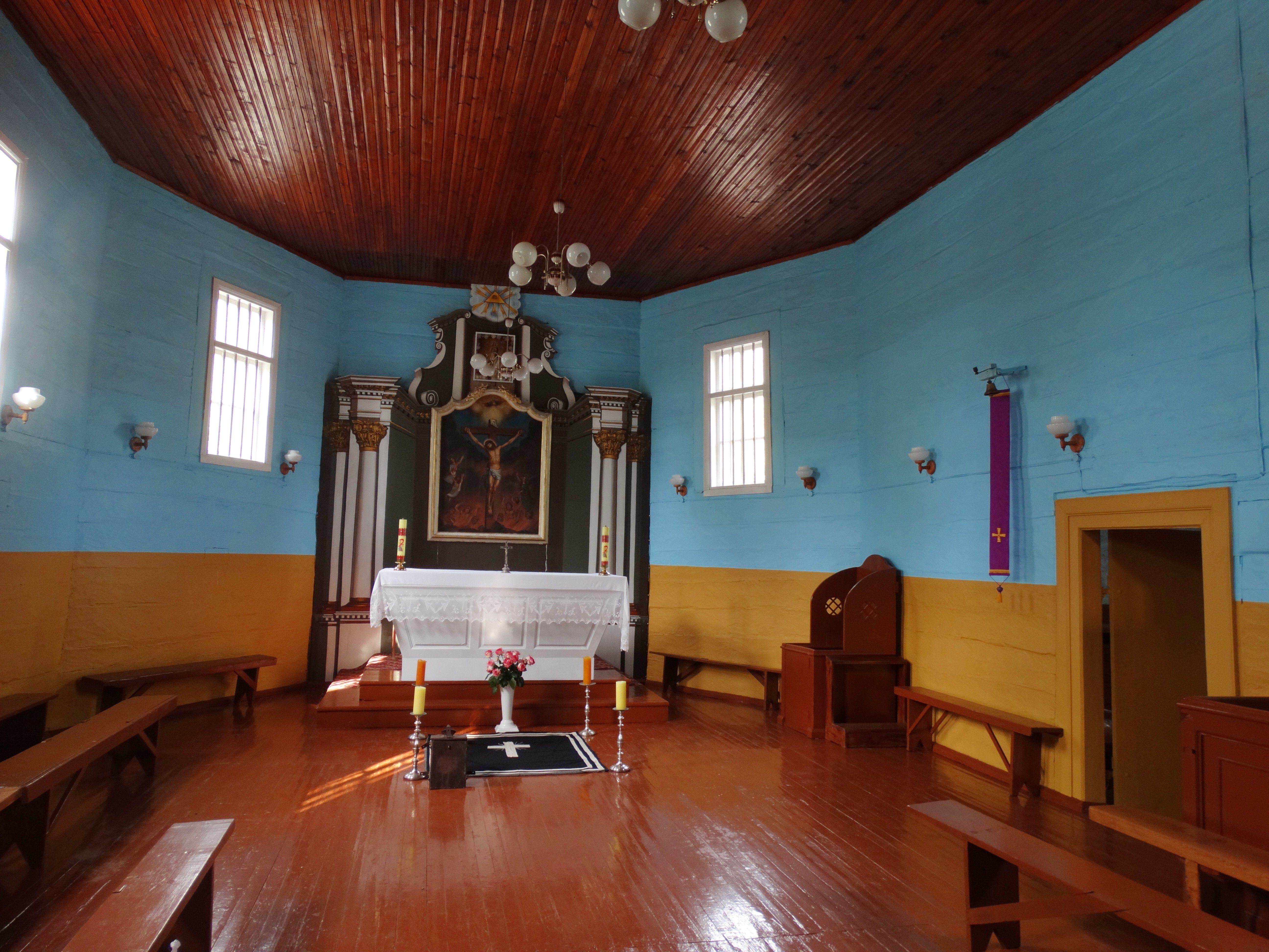 Rozalimas, cemetery chapel, interior, Pakruojis District, Lithuania